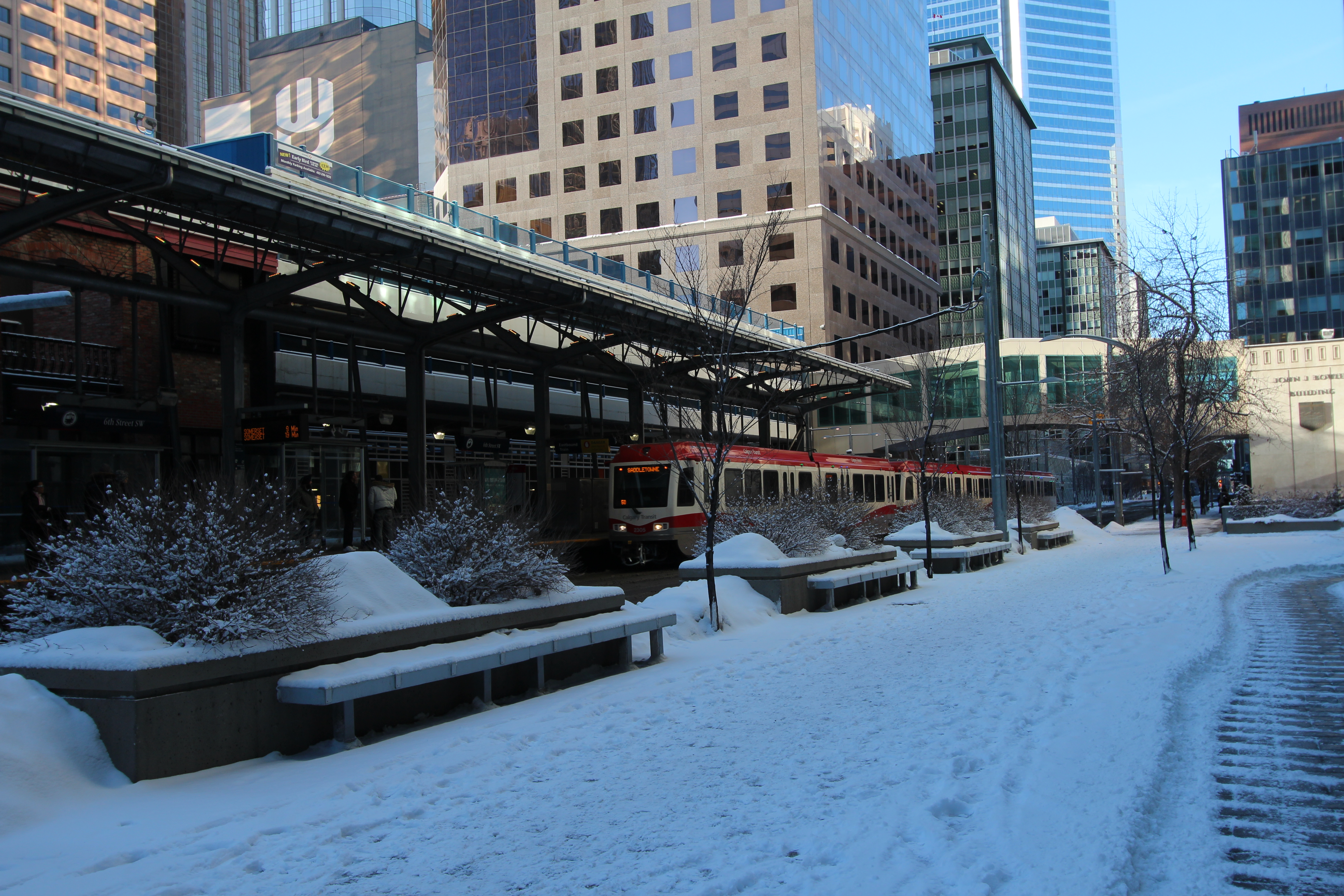 A great city service and only $3 to anywhere in the city bus or train